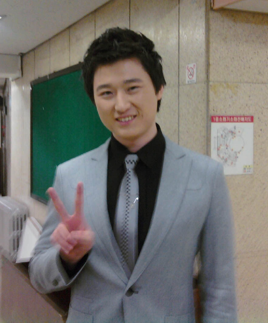 An jun Yeong